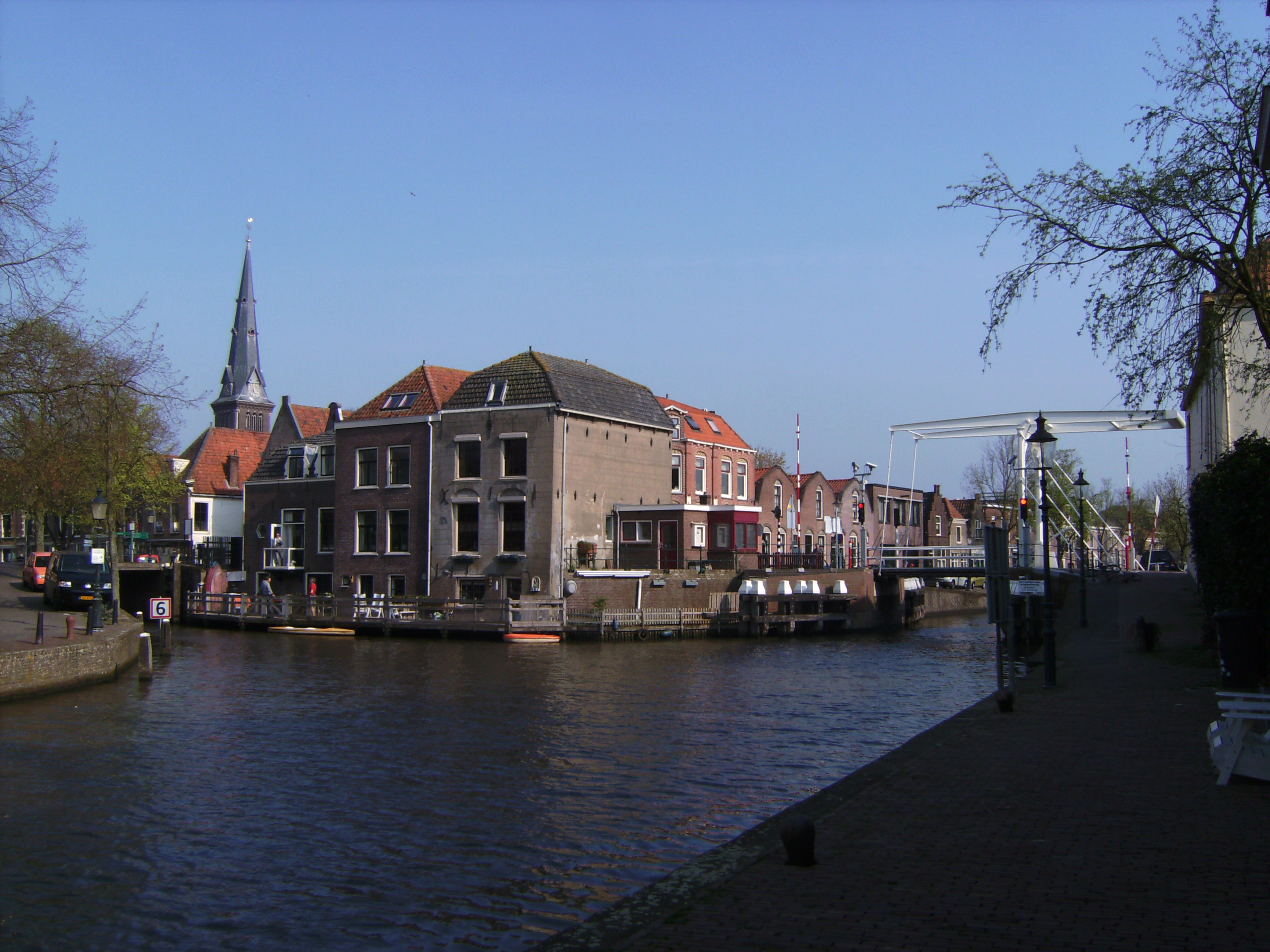 Oudwater, view to the town